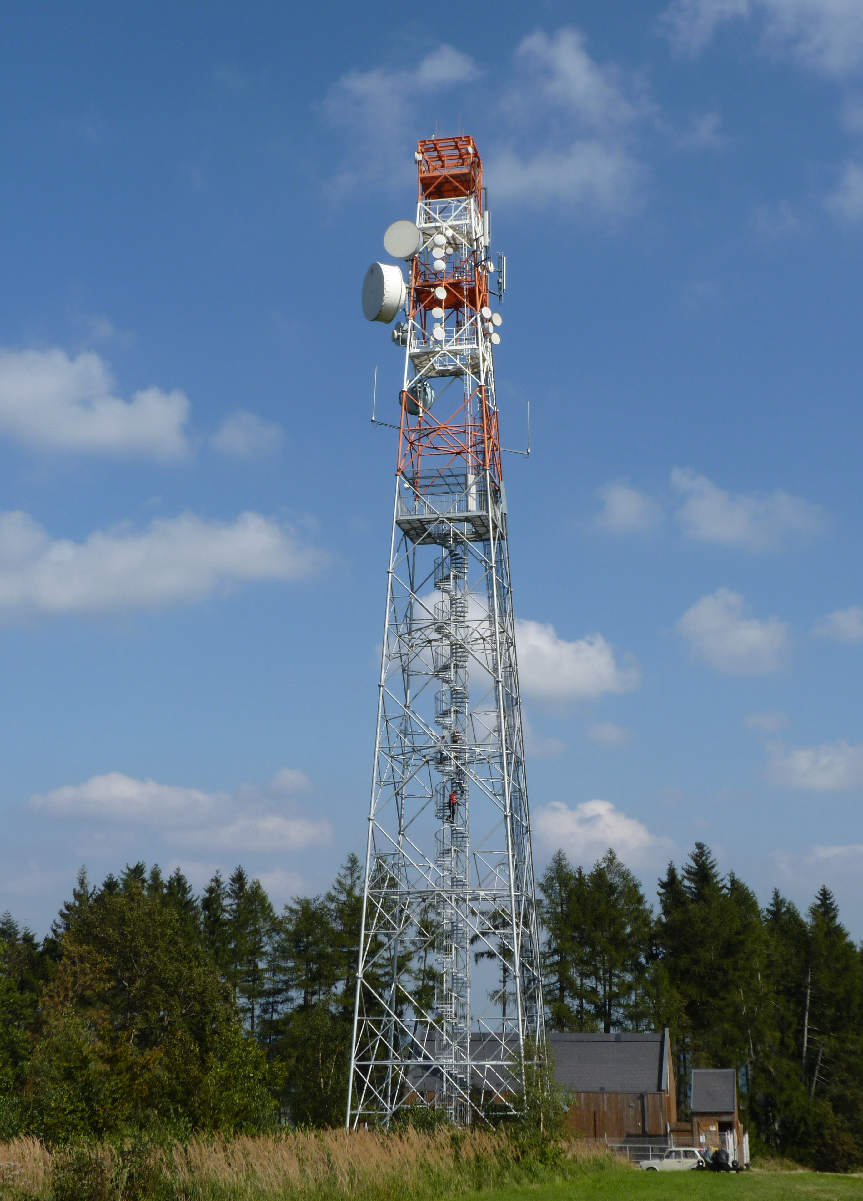 Observation tower at Kozlov (Česká Třebová), Ústí nad Orlicí District, Pardubice Region, Czech Republic